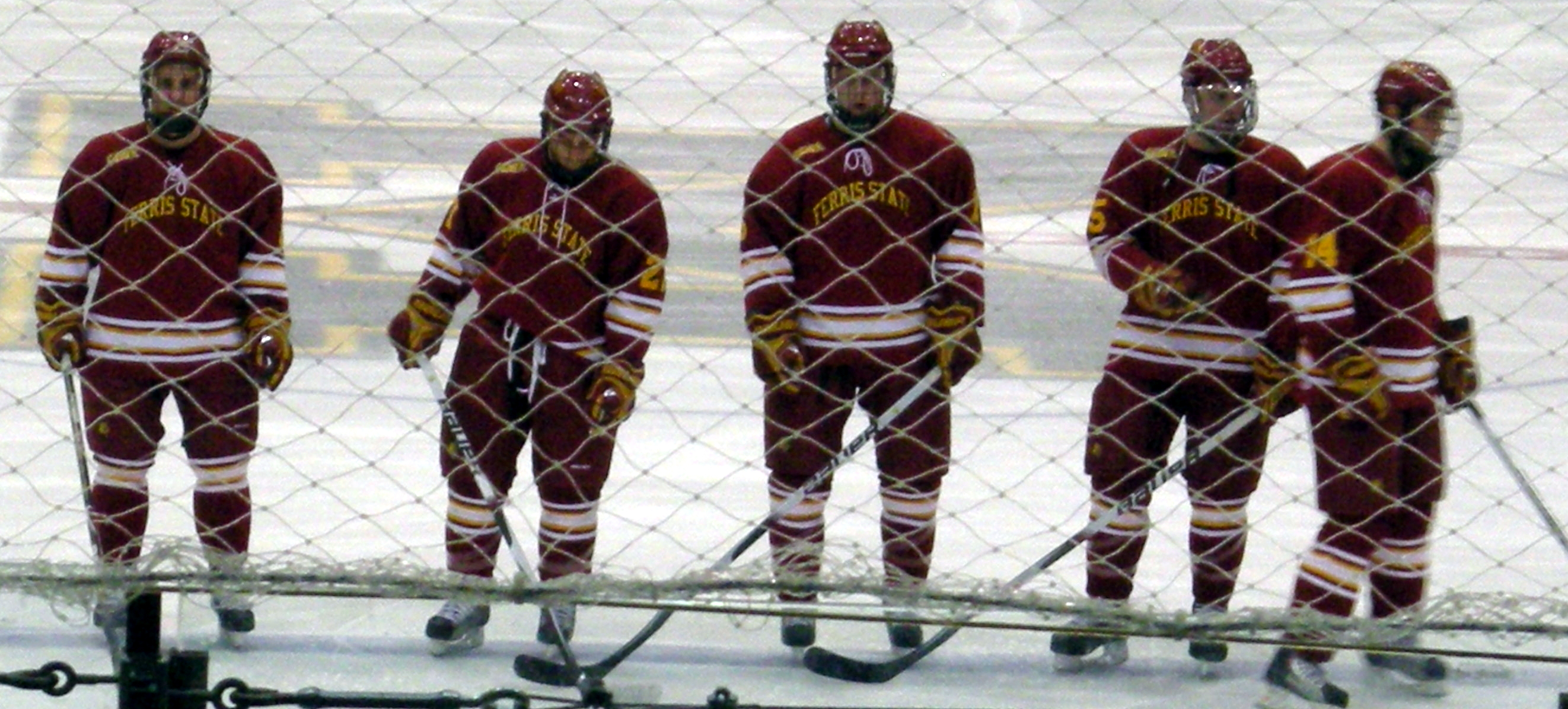 Ferris State's starting lineup before the Ferris State Bulldogs vs. Michigan Wolverines men's ice hockey game at Yost Ice Arena in Ann Arbor, Michigan (United States). Michigan won 2–0.